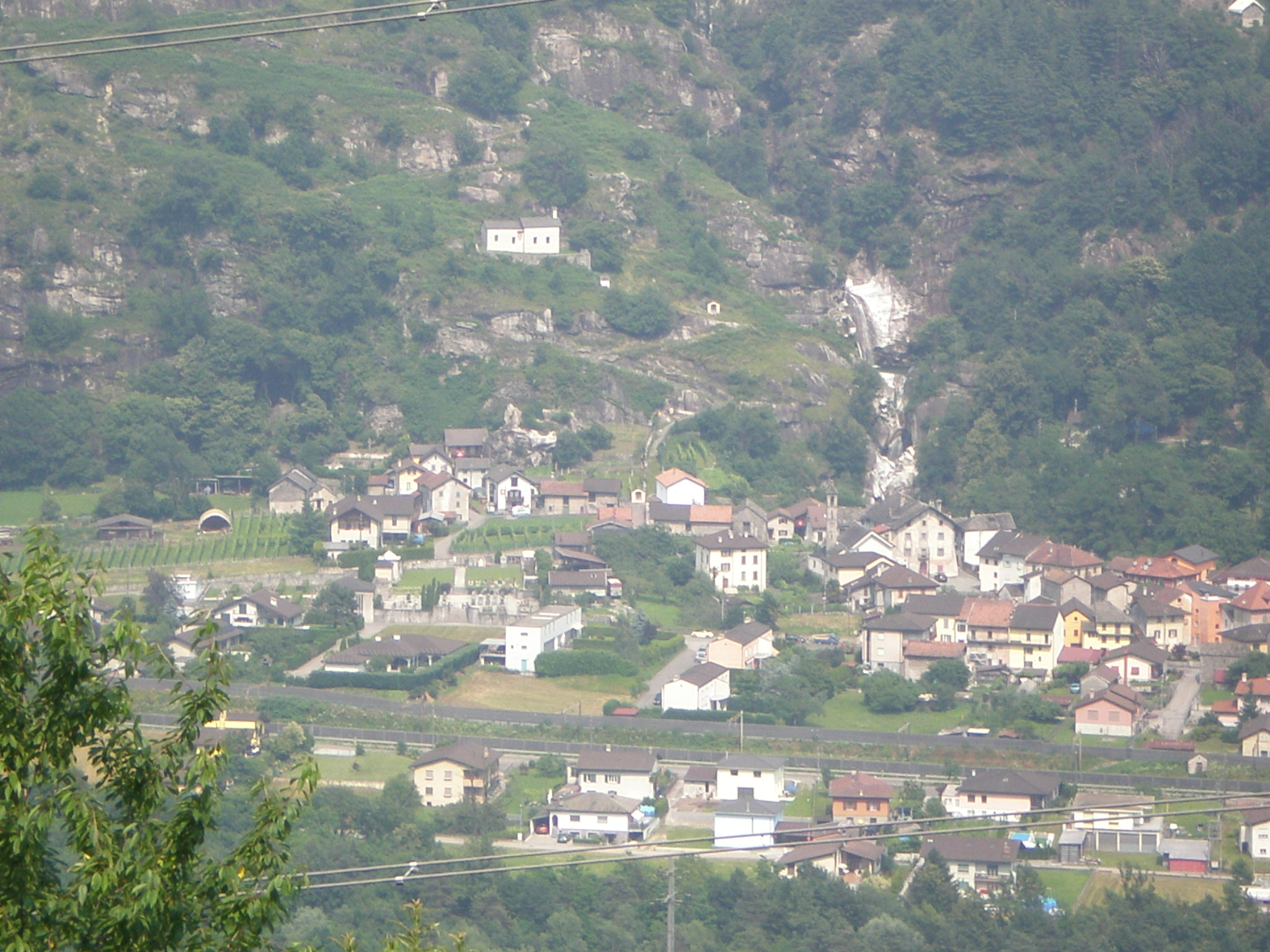 photo of the village of Osogna (Ticino,Switzerland)